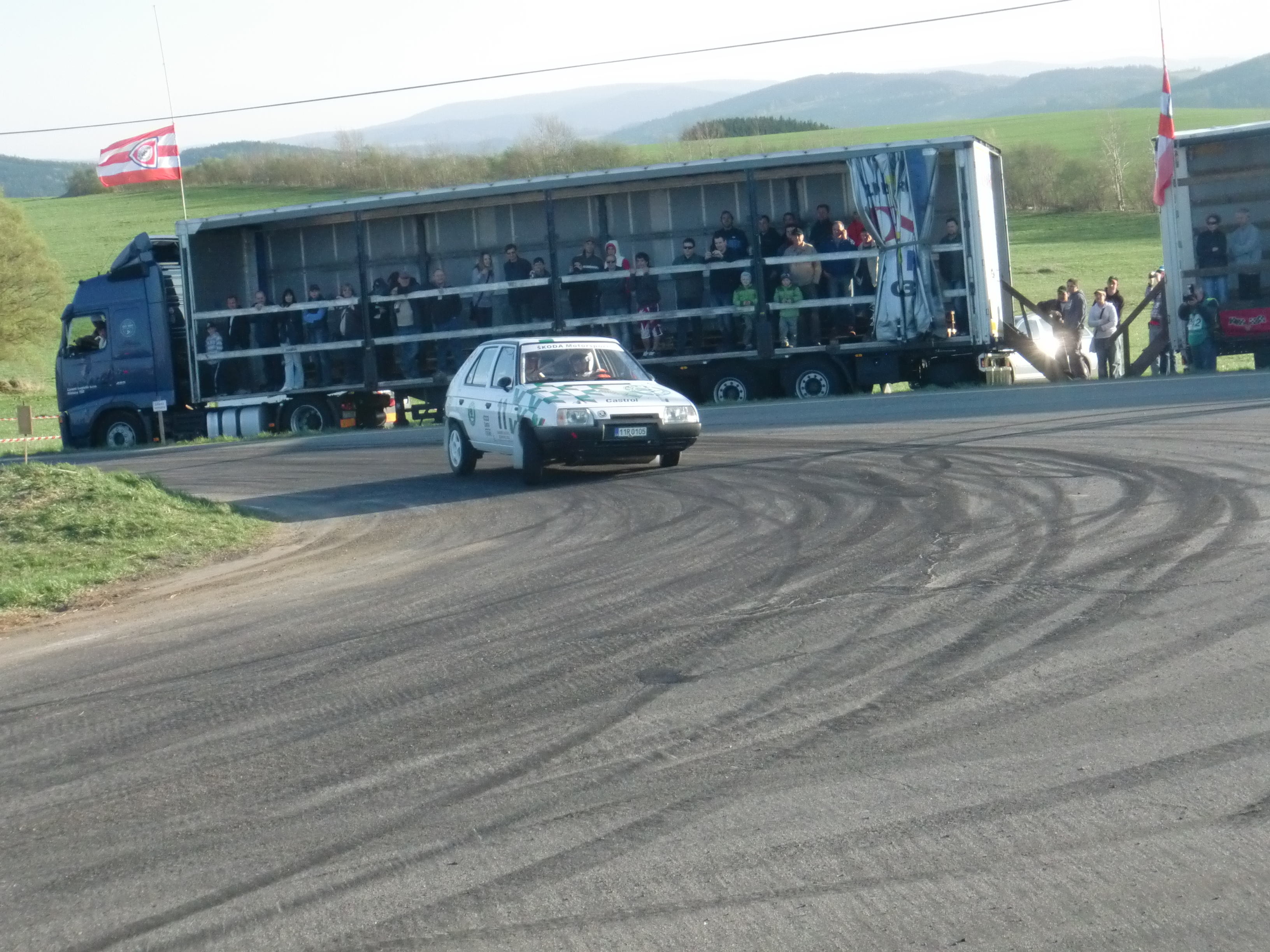 Skoda Favorit F2 Rally, Rally Sumava 2011, Skoda Motorsport Color scheme